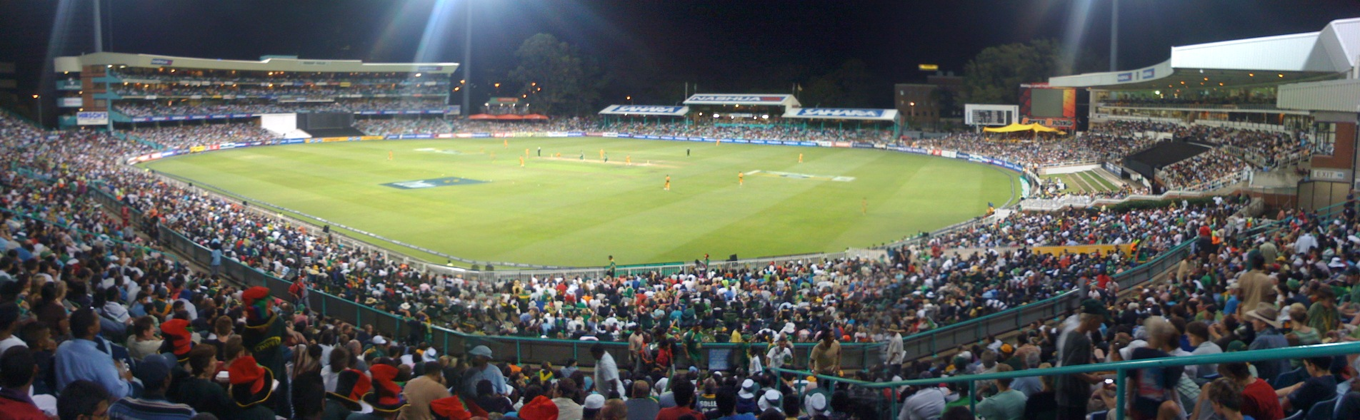 Kingsmead during AUS vs RSA match, 2009